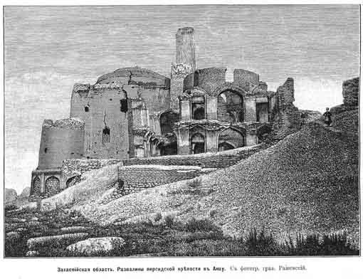 Trans-Caspian region. The ruins of a mosque in the Persian Anau, Ashgabat